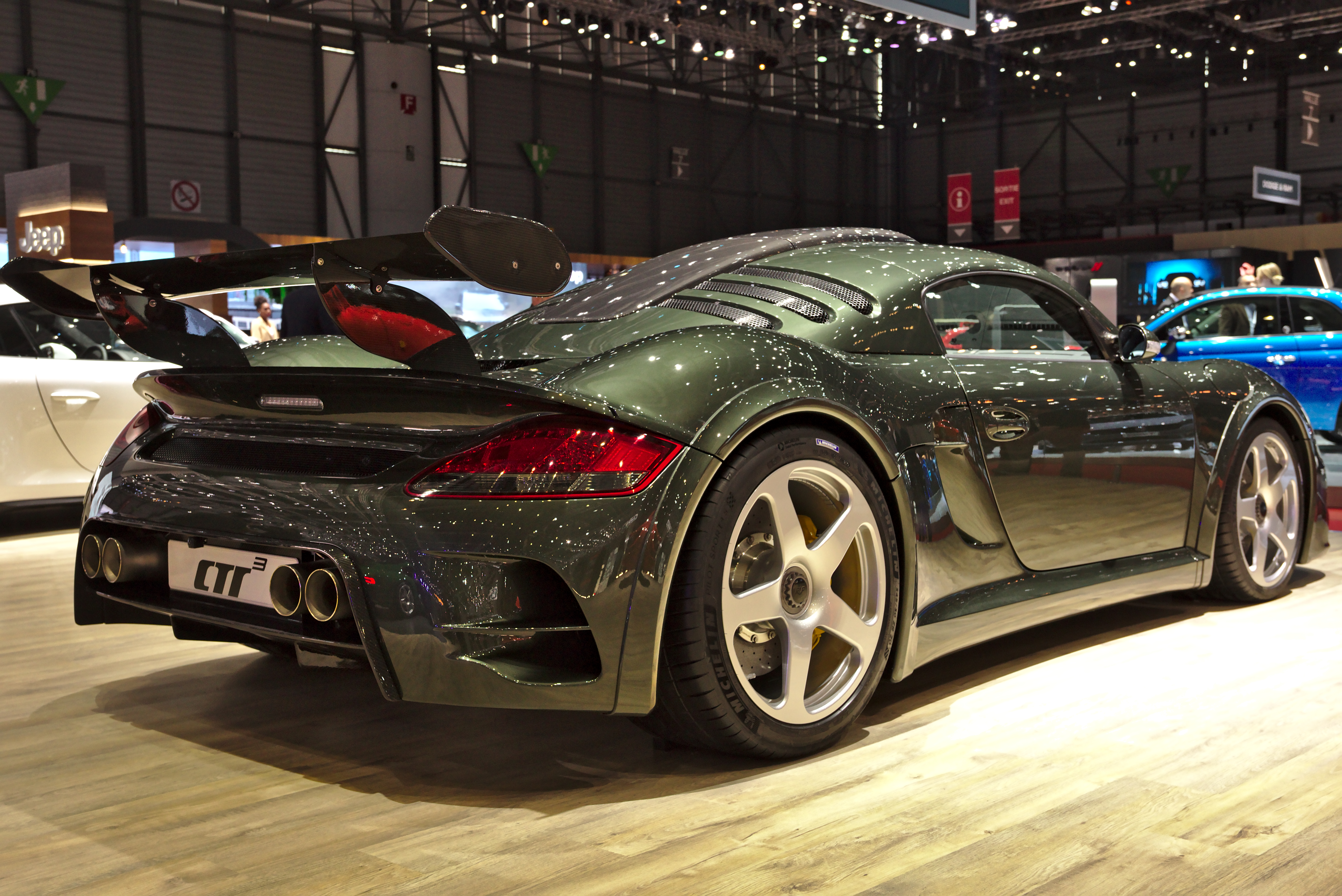 Ruf CTR3 at Geneva Motorshow 2018